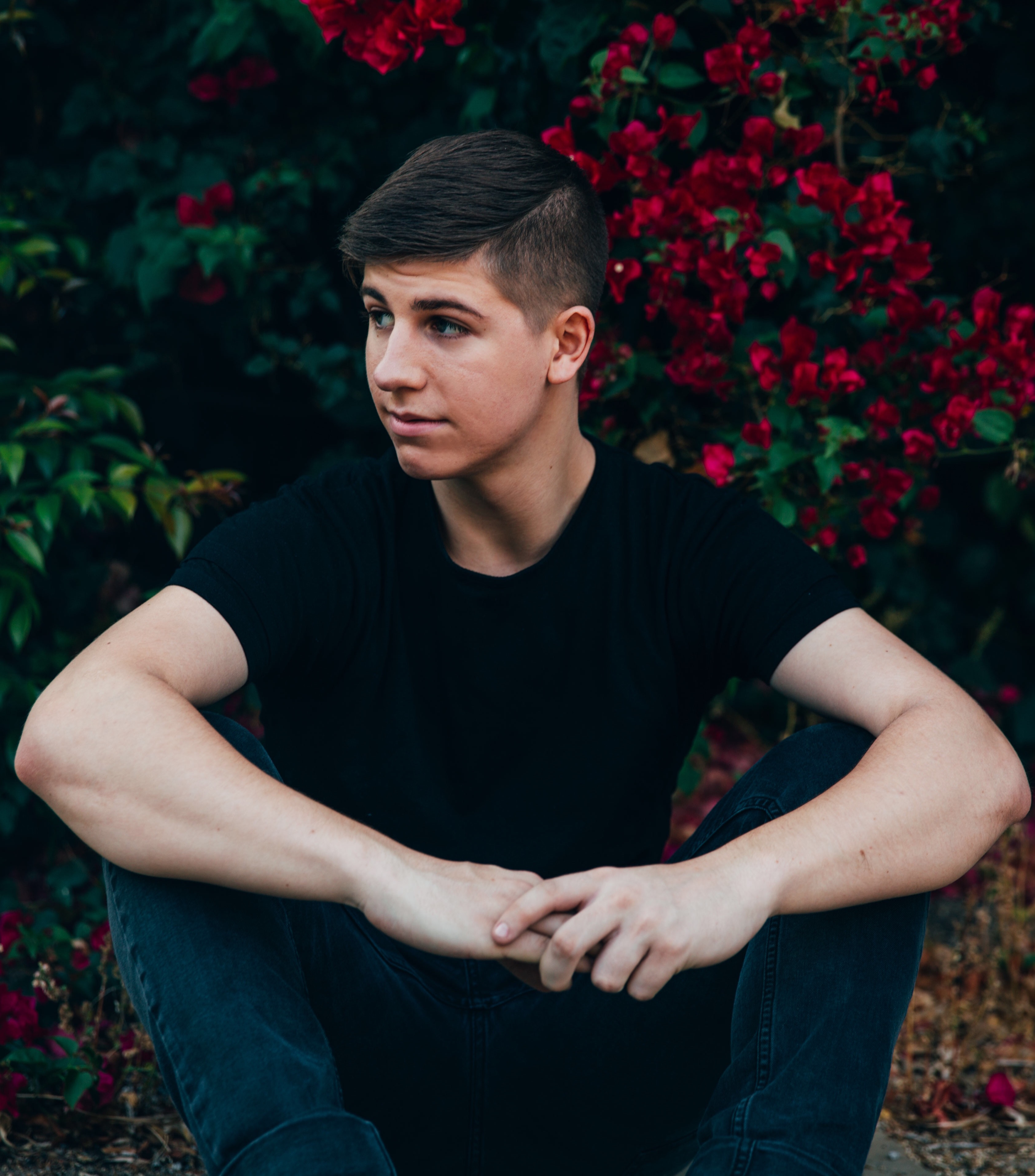 Steve James press kit photo